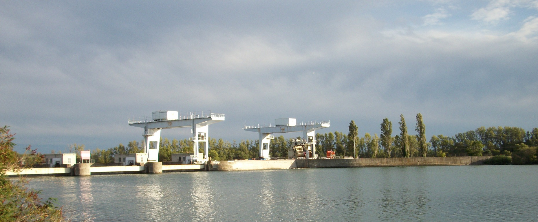 Dam and hydroelectric power plant in Sauveterre (Gard, France), operated by the CNR.